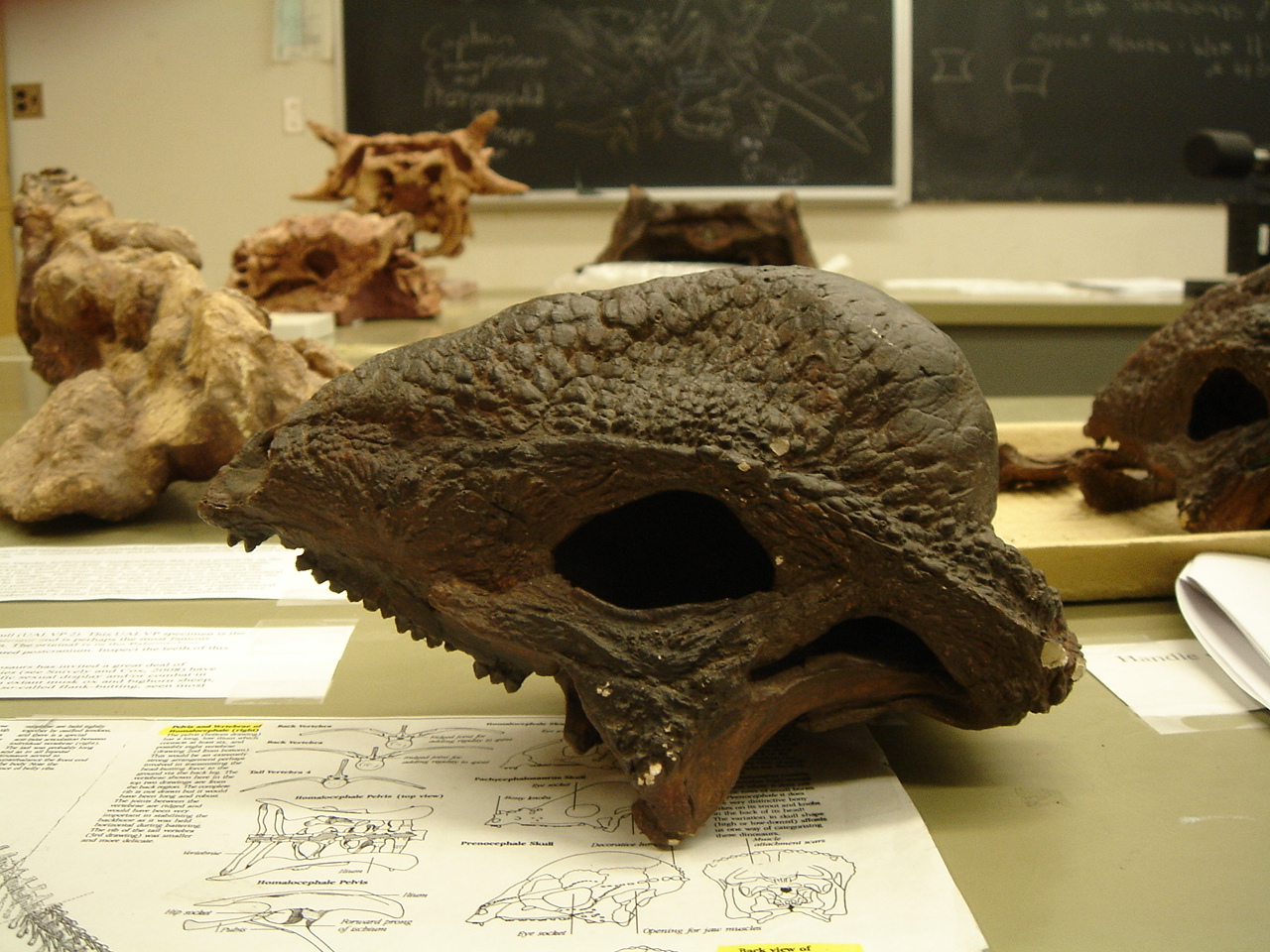 Skull of Stegoceras